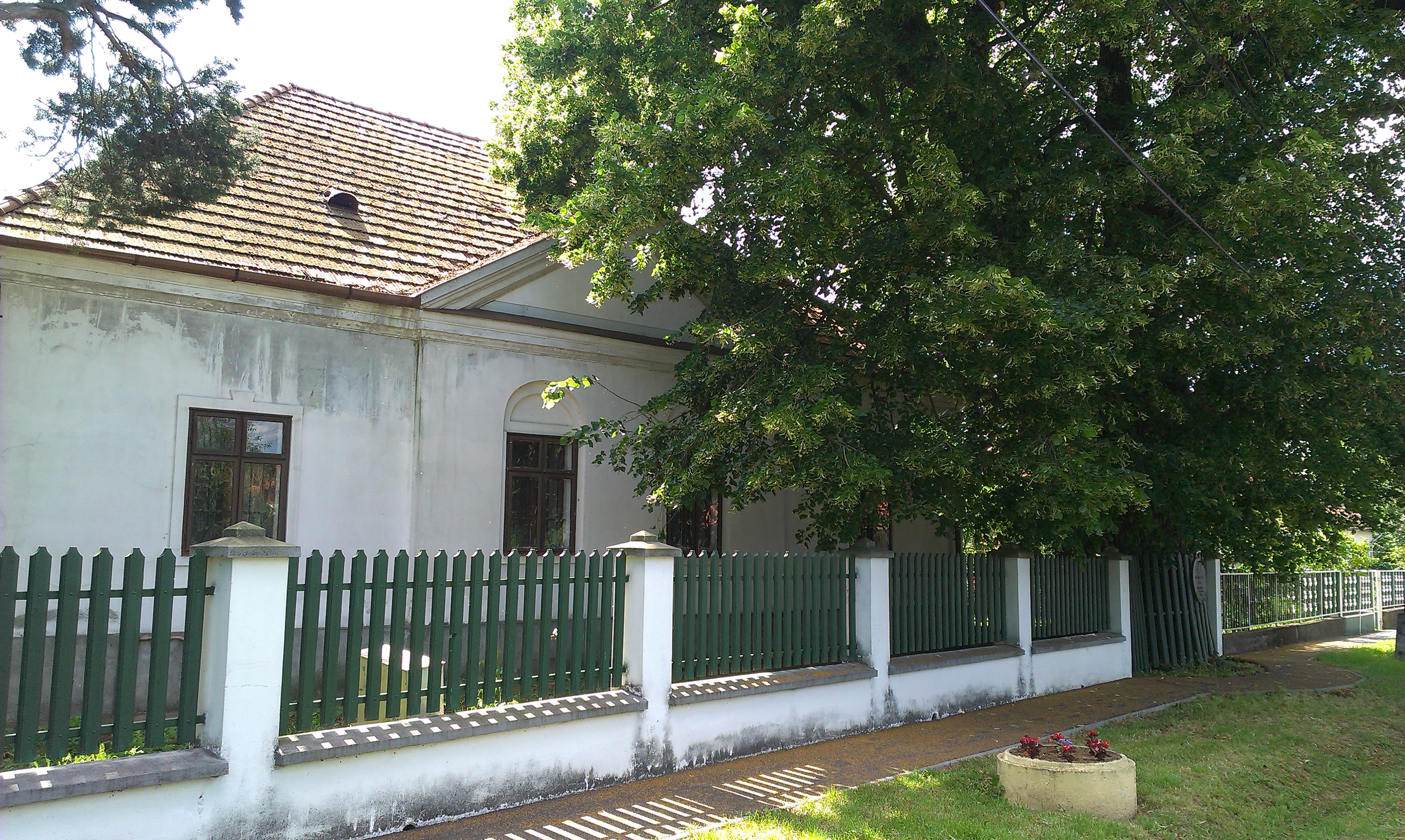 The Máriássy mansion and the so called Saved Tree in Sajósenye, Hungary.